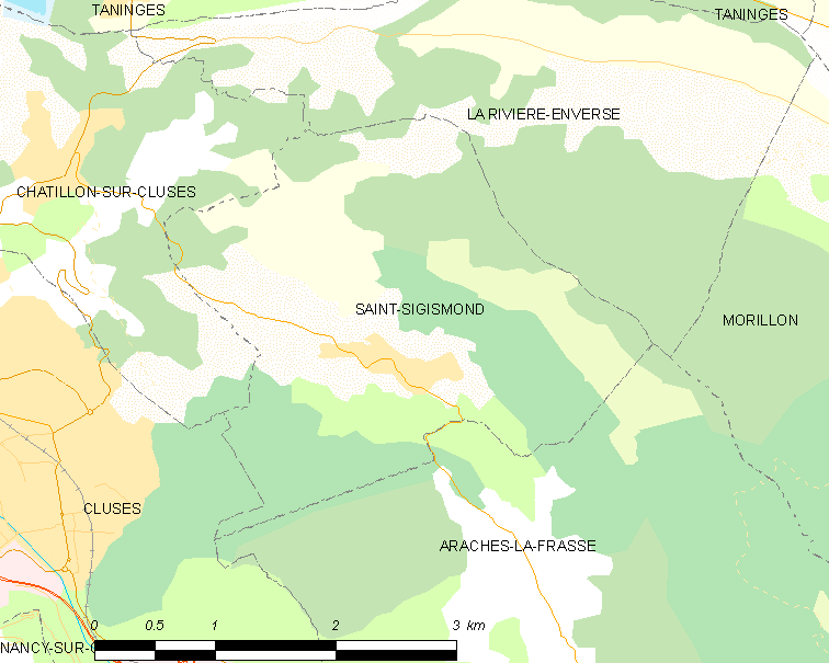 Map of French municipality Saint-Sigismond